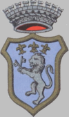 Coat of Arm, Town of Lonato, Brescia, Italy